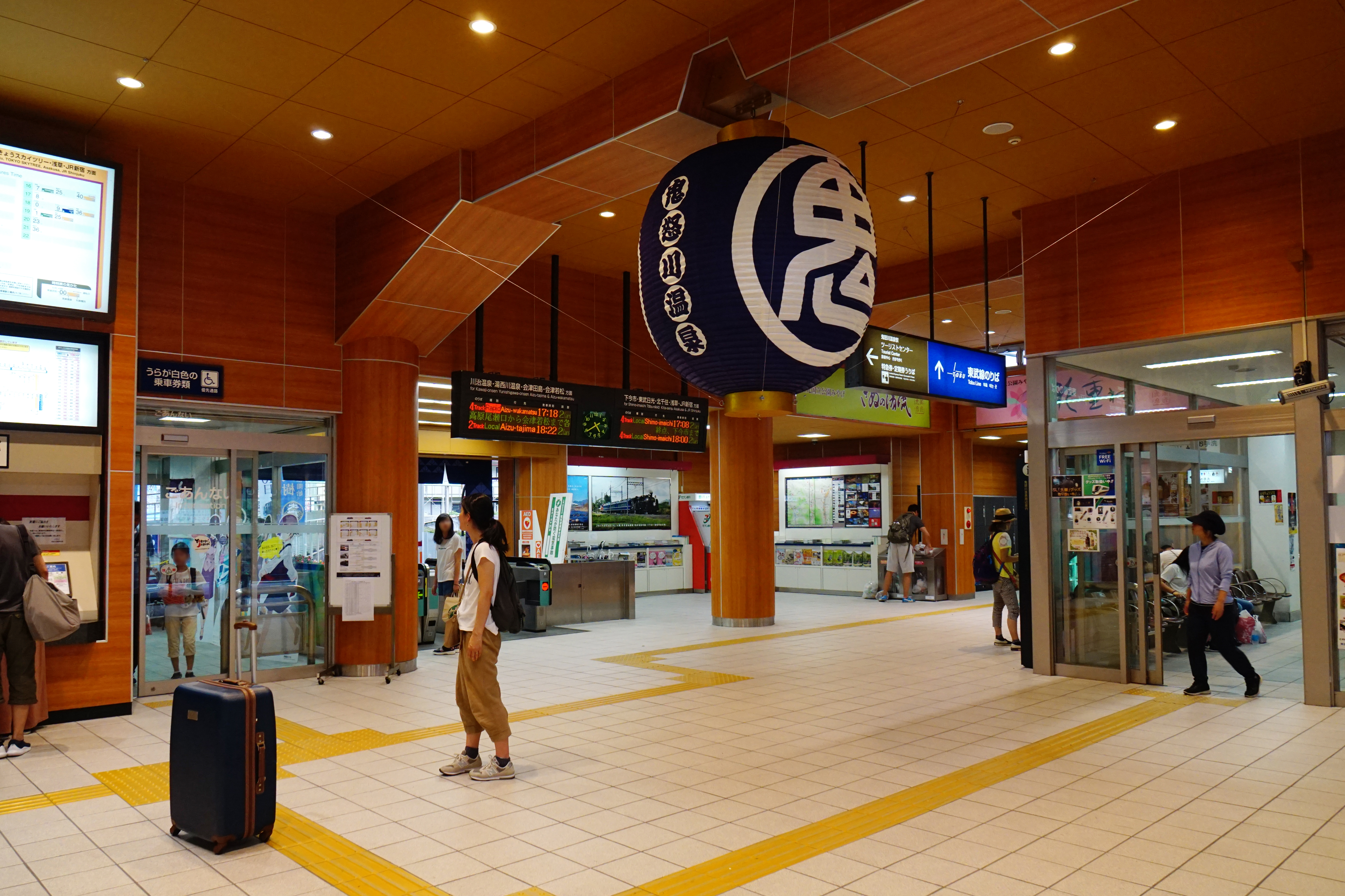 Kinugawa-Onsen Station in Nikko, Tochigi prefecture, Japan